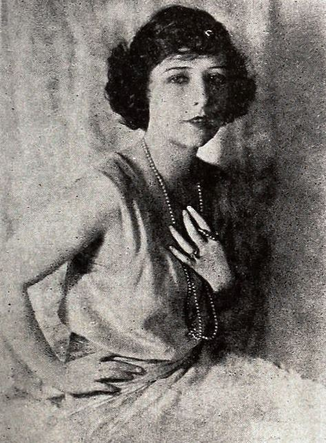 Still from the American drama film Slander the Woman (1923) with Dorothy Phillips, listed in the caption under the film's working title The White Frontier, on page 395 of the January 20, 1923 Exhibitor's Trade Review.